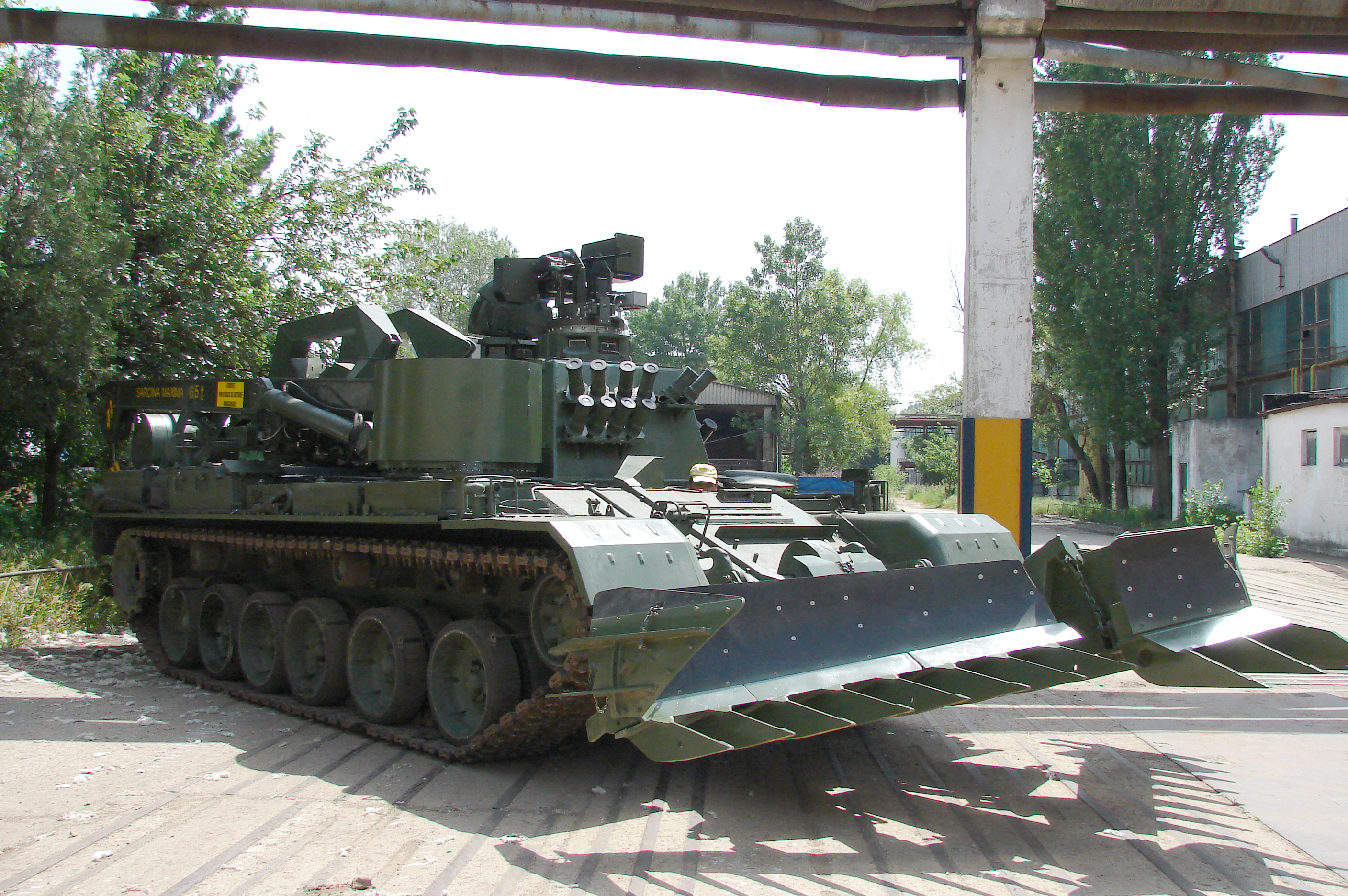 DMT-85M1 - Armoured engineer vehicle based on TR-85M1 tank.